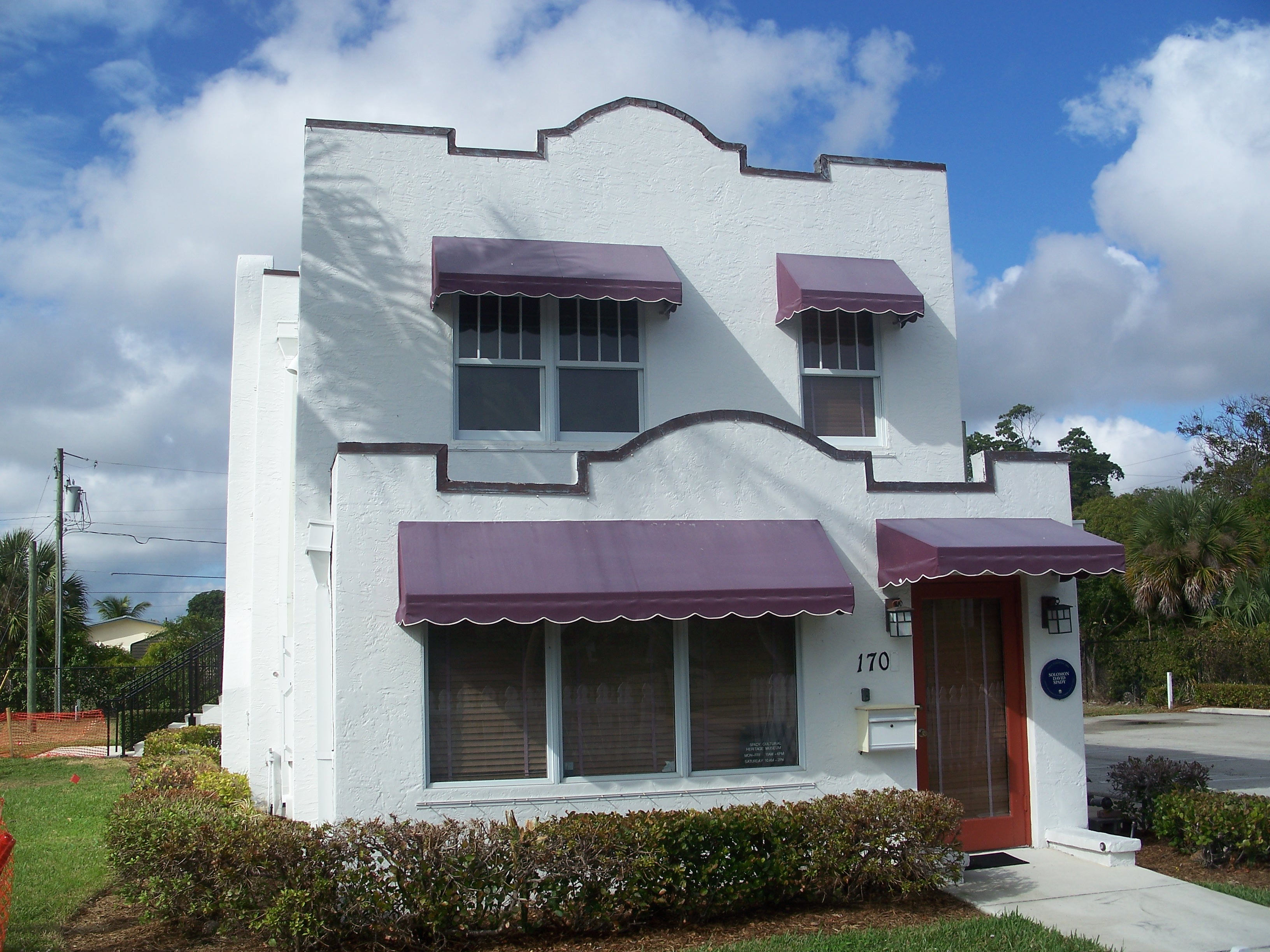 Delray Beach, Florida: Spady Cultural Heritage Museum